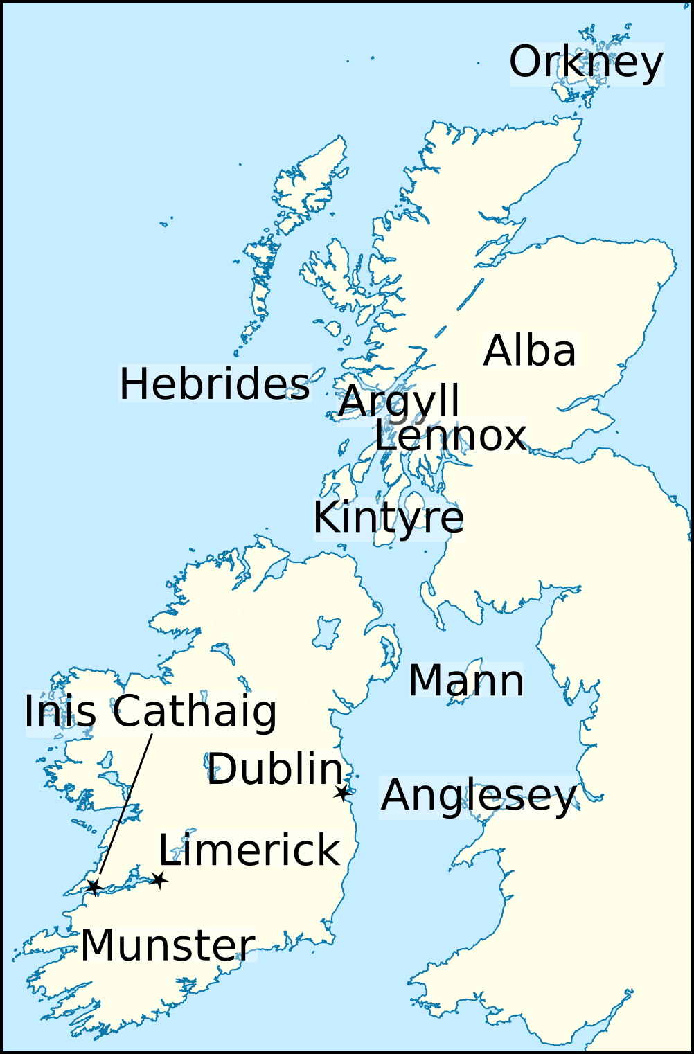 Map created for the Wikipedia article concerning Ragnall mac Gofraid, King of the Isles (died 1004/1005).